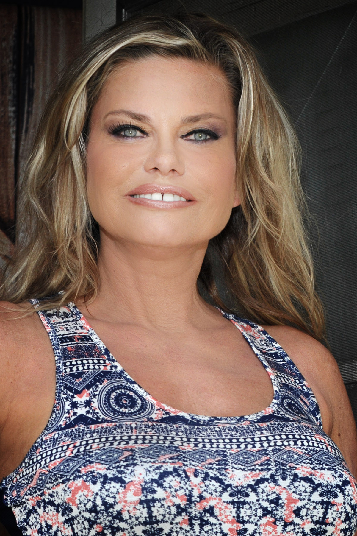 Elke Jeinsen, Los Angeles, California on March 20, 2016 - Photo by Glenn Francis of